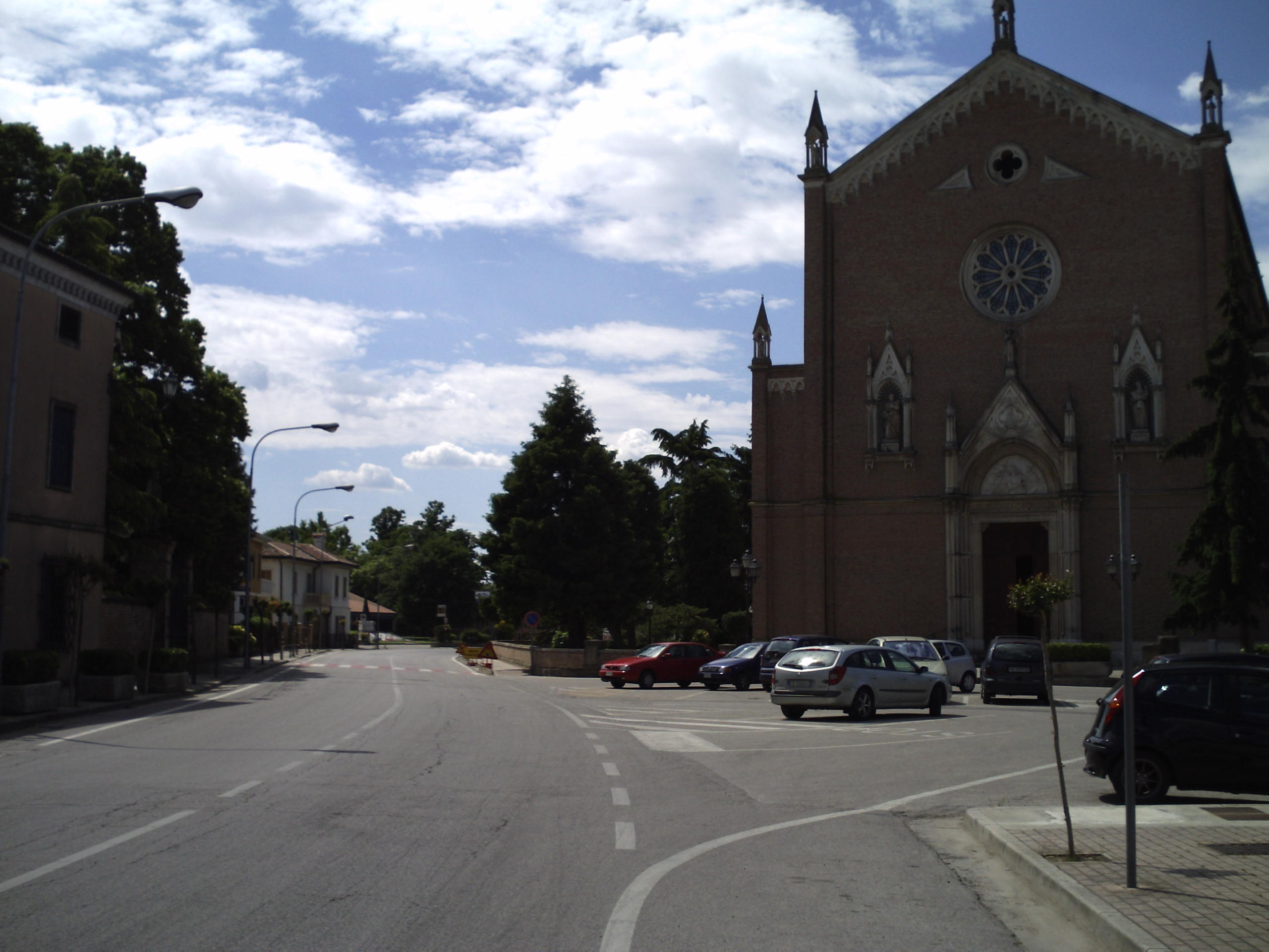 View of Arre, Italy